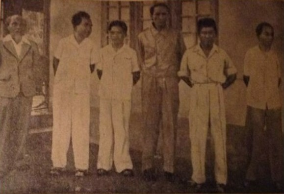 J. H. Manuhutu and his friends in custody in Yogyakarta